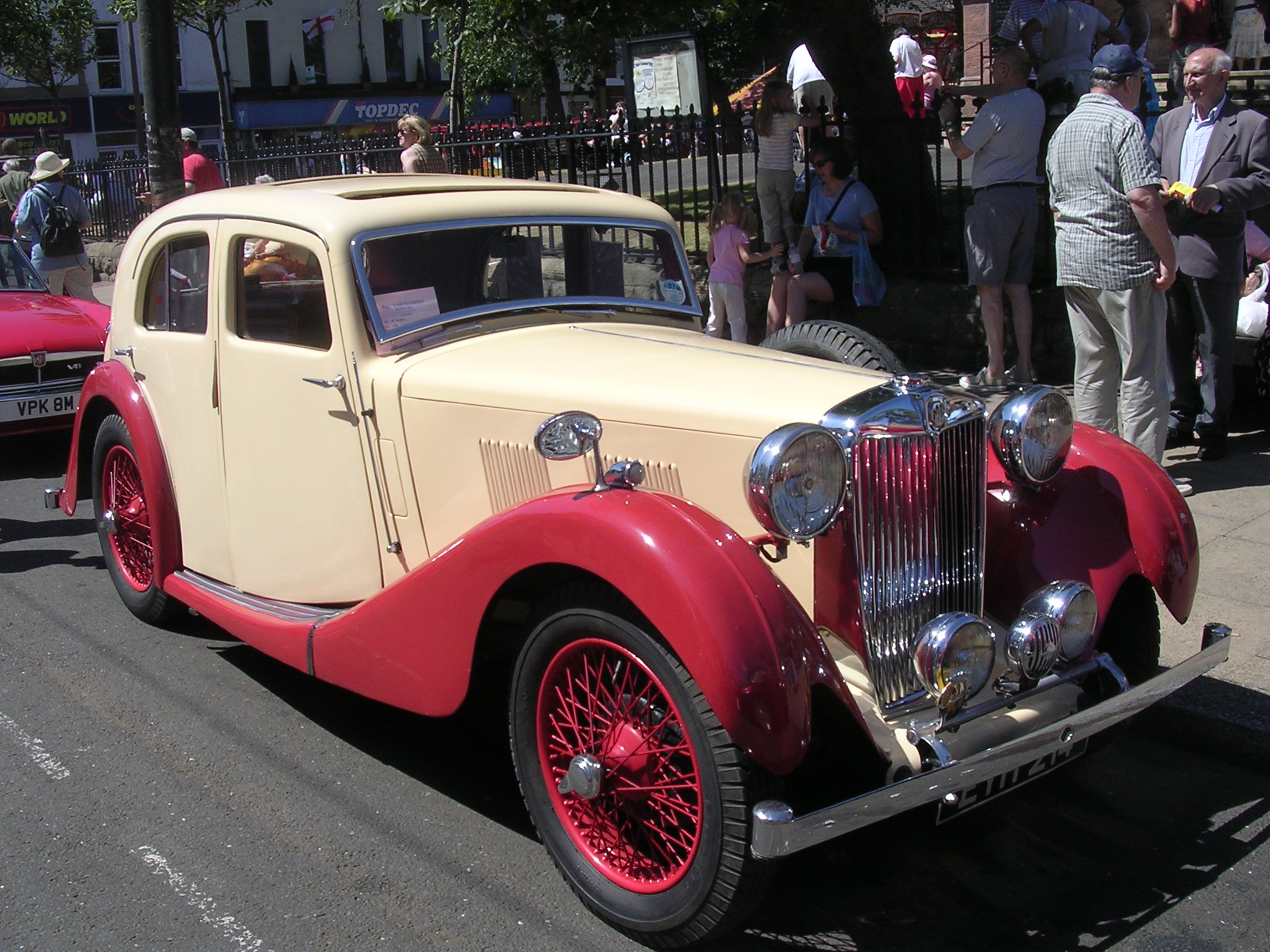 MG VA Saloon - 1938MG VA sports saloon 1938(DVLA) first registered 25 June 1938, 1479cc